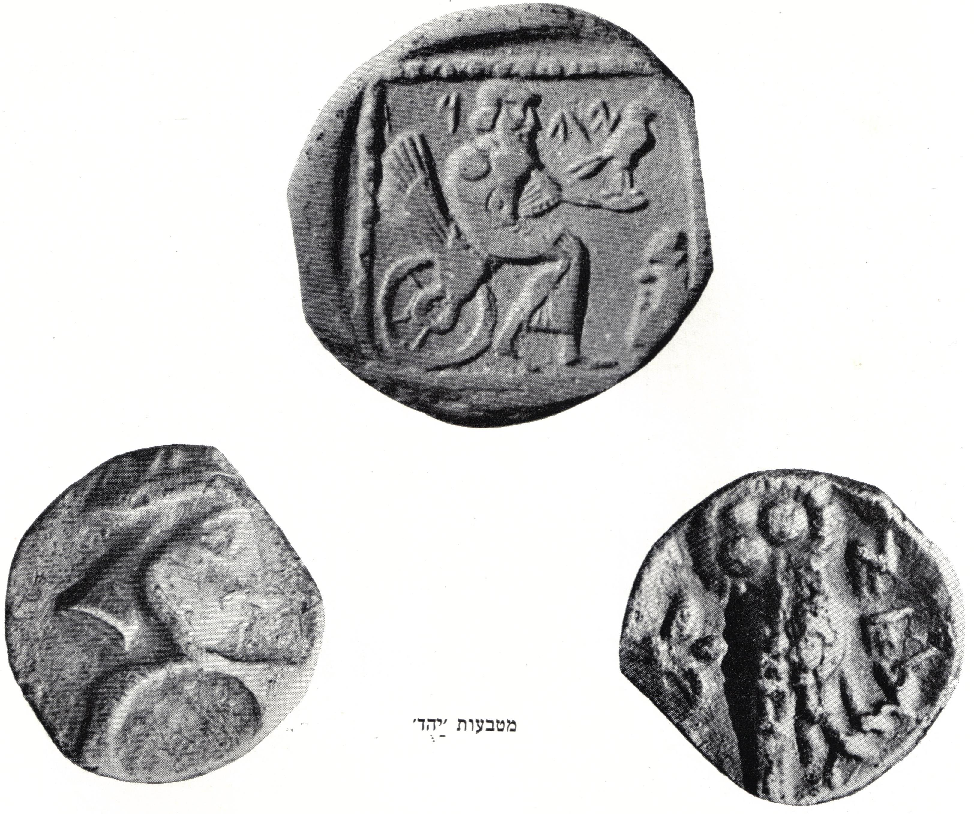 Yehud coins: coins minted in provice of Judea during the Persian period.